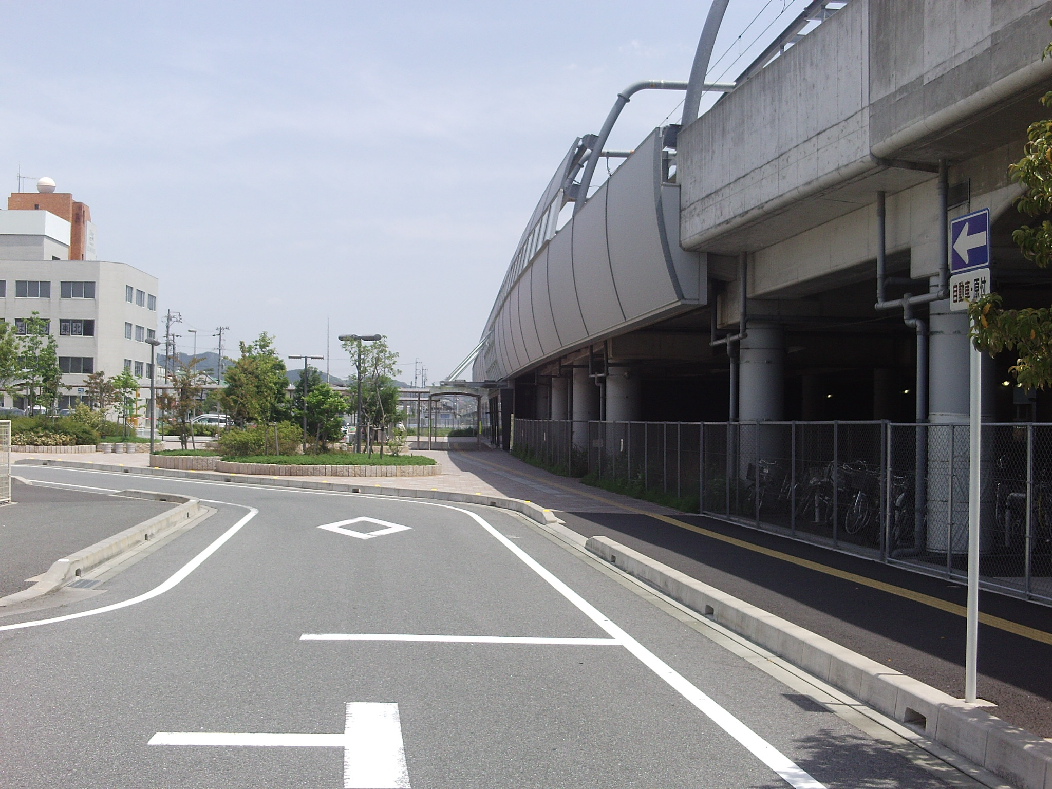 Aichi prefectural road No.369 in Motomachi 1-chome, Gamagori, Aichi.